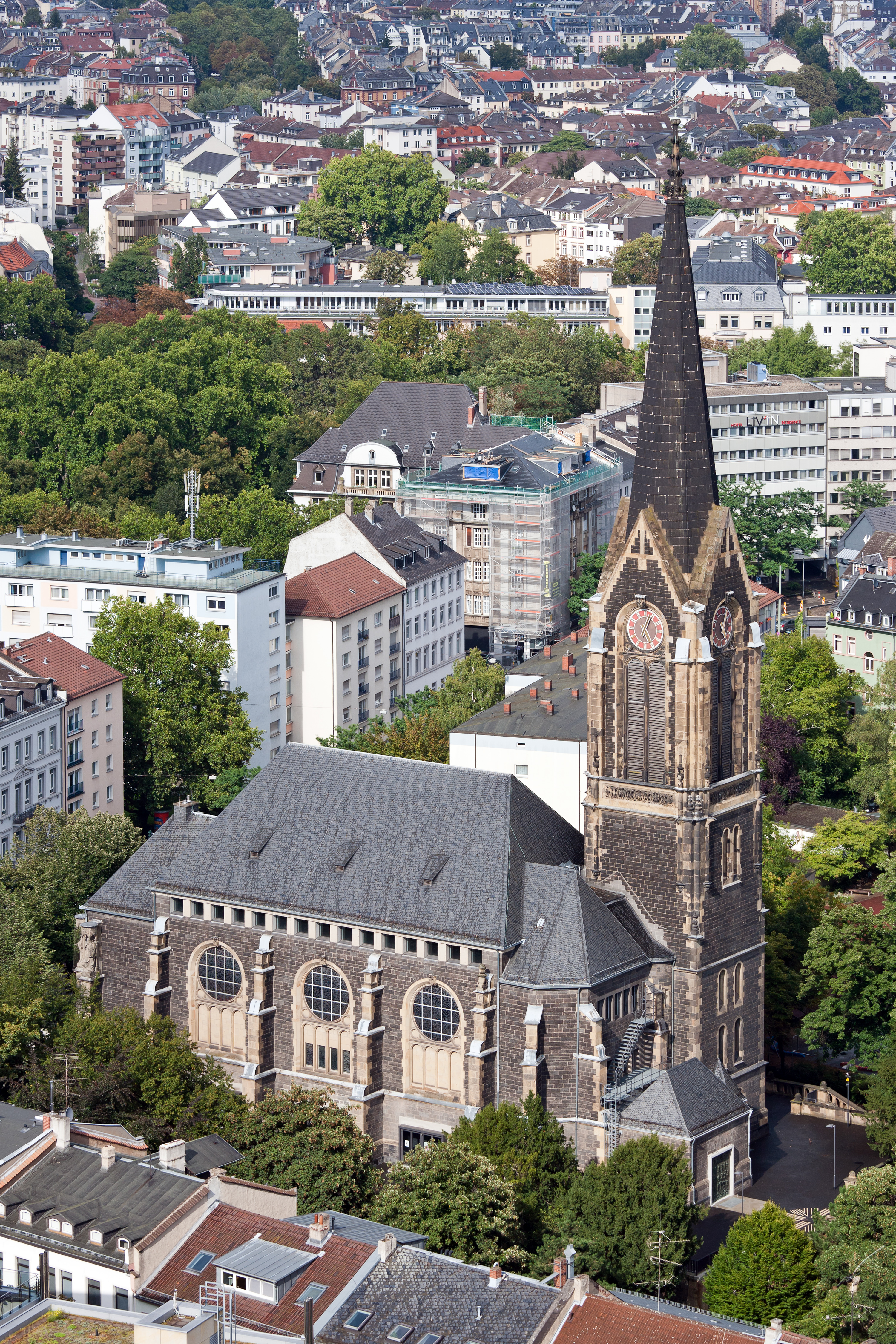 Frankfurt on the Main: Peterskirche (St. Peter's Church) as seen from the Nextower